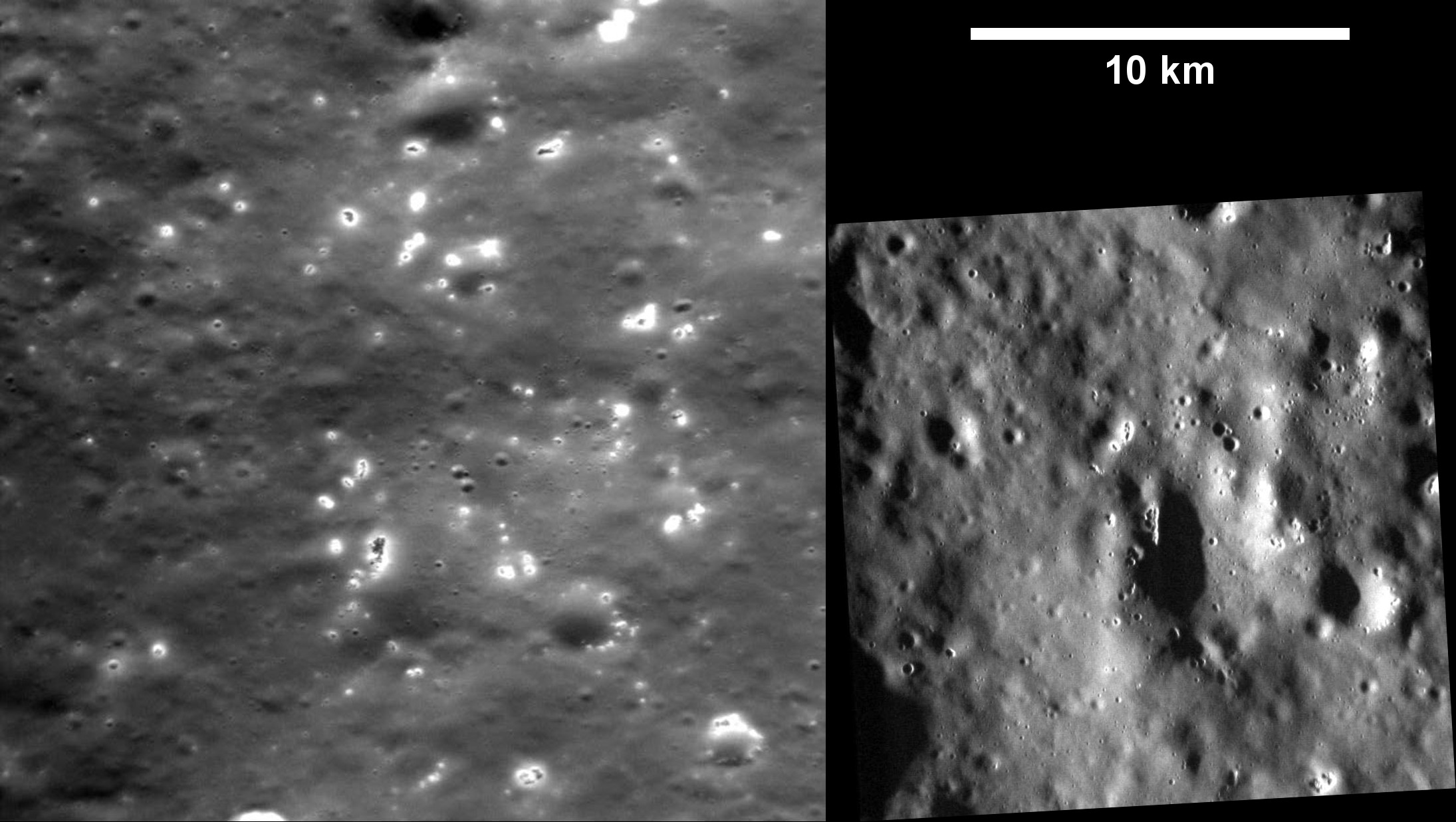 Two views of hollows within western Derzhavin crater, on Mercury. Both were acquired by MESSENGER's Narrow Angle Camera, and are shown at approximately the same scale, but were acquired with different lighting conditions and at slightly different angles. The left image was enlarged to match the right image. Data for the right image (EN0258688546M), dated 2012-10-14: Emission Angle: 4.8 Incidence Angle: 77.3 Latitude: 45.7 Longitude: 321.0 Phase Angle: 82.0 Data for the right image (EN0241252301M), dated 2012-03-26: Emission Angle: 31.2 Incidence Angle: 46.9 Latitude: 45.8 Longitude: 321.0 Phase Angle: 78.1